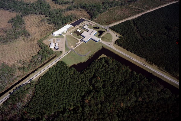 LIGO Laboratory operates two detector sites, one near Hanford in eastern Washington, and another near Livingston, Louisiana. This photo shows the Livingston detector site.